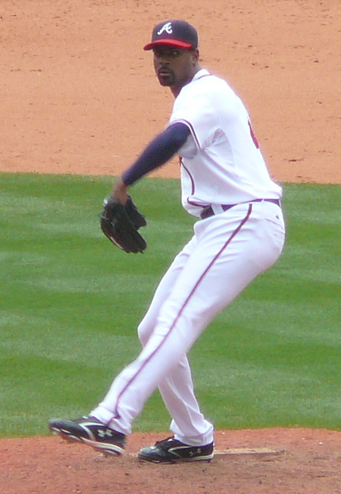 Please attribute this photo by name if used in places other than Wikipedia. 06:48, 29 May 2008 . . Chrisjnelson . . 384×556 (204 KB)